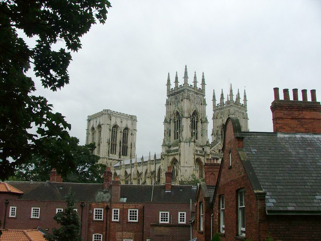 York Minster Photo by Jan Kronsell, 2005